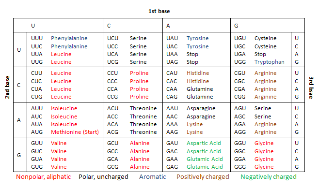 genetic code, codon table